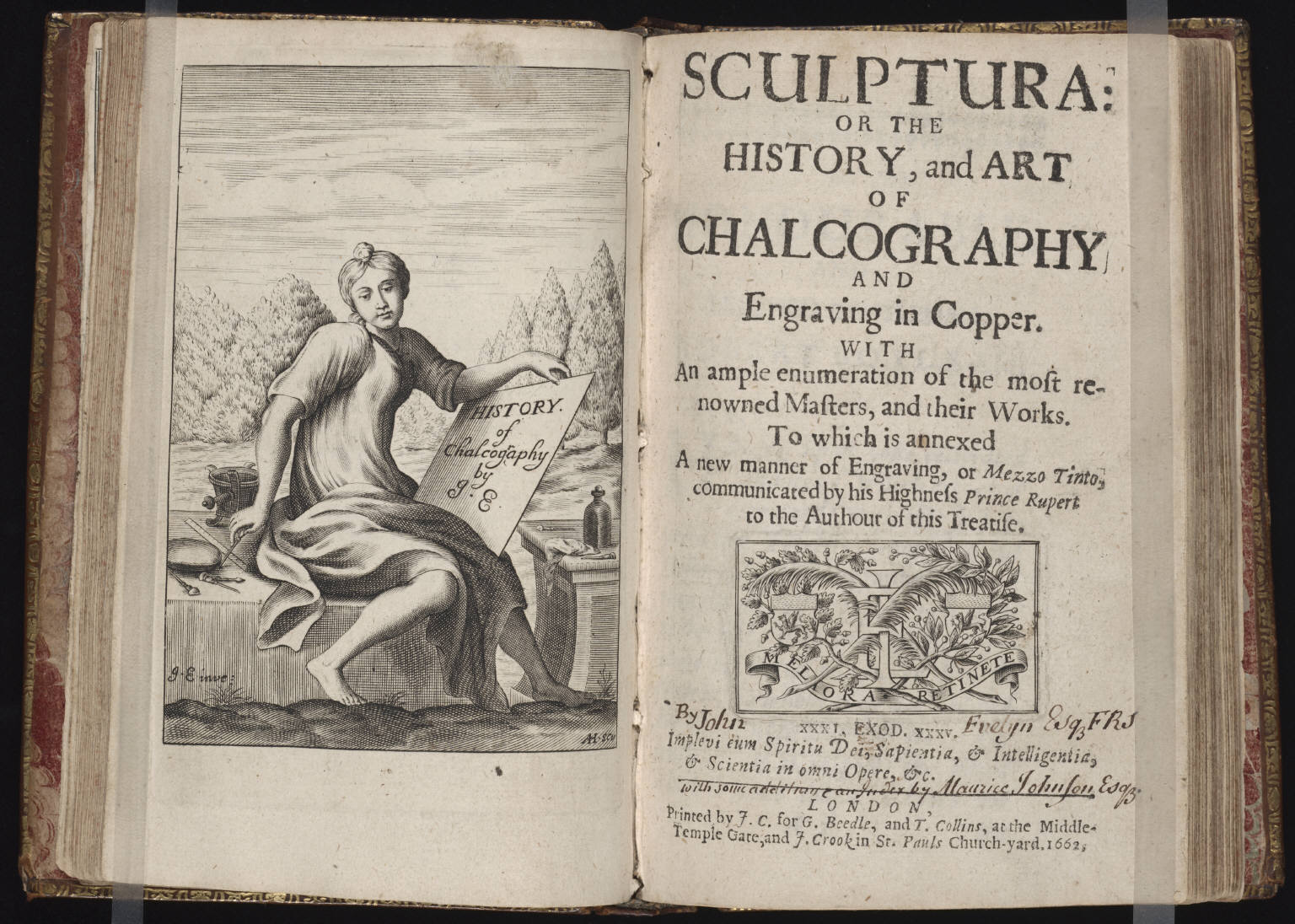 Frontispiece and title page of "Sculptura: or the History and Art of Chalcography and Engraving in Copper," by the English writer John Evelyn. Printed by J.C. for G. Beedle, and T. Collins, at the Middle-Temple Gate, and J. Crook in St. Pauls Church-yard, 1662, London. 17 cm. Courtesy of Beinecke Rare Book and Manuscript Library, General Collection, Yale University, New Haven, Connecticut.